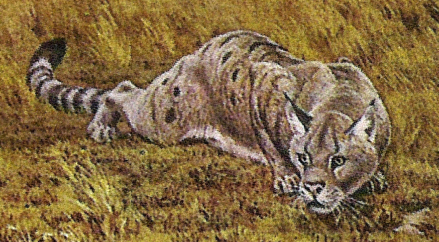 Crop of file in filename